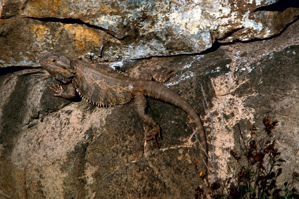 Image title: Bearded dragon lizard Image from Public domain images website